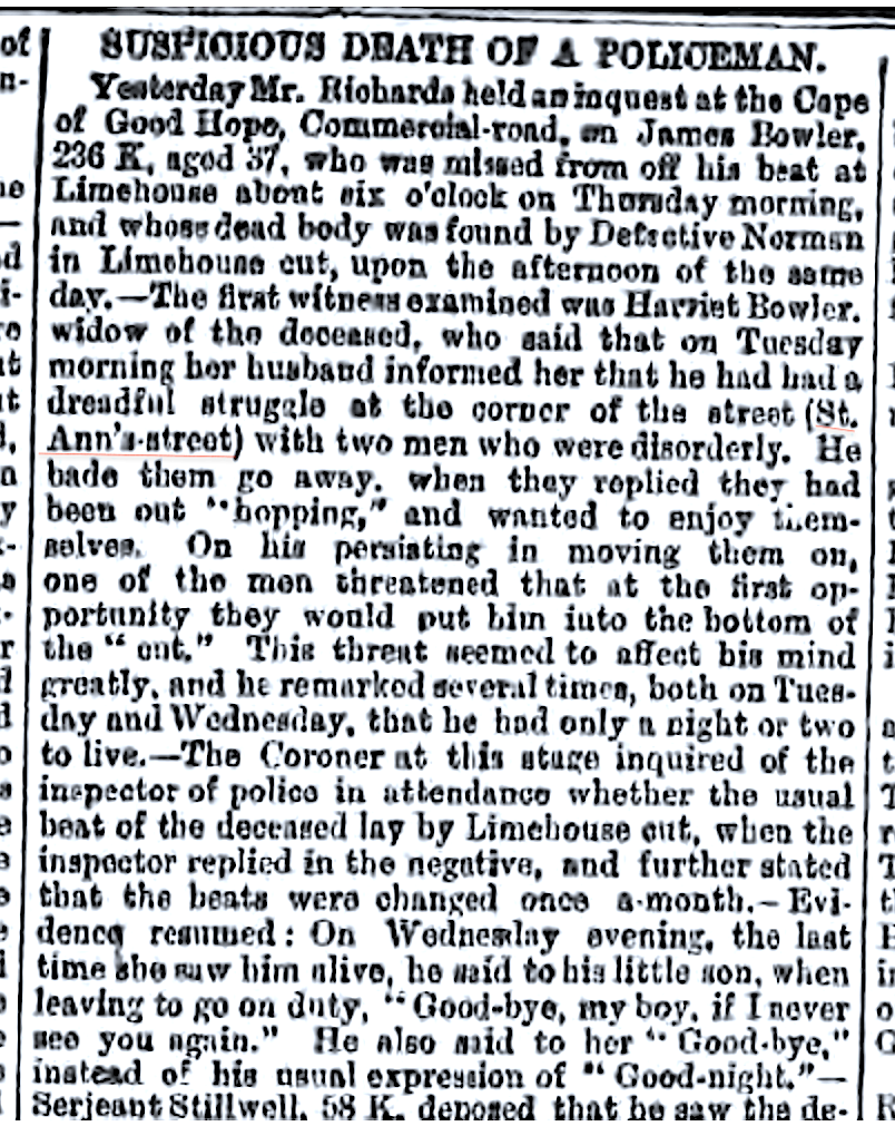 The St Anne's Rookery, Limehouse was a notorious criminal slum. This newspaper article is self-explanatory.